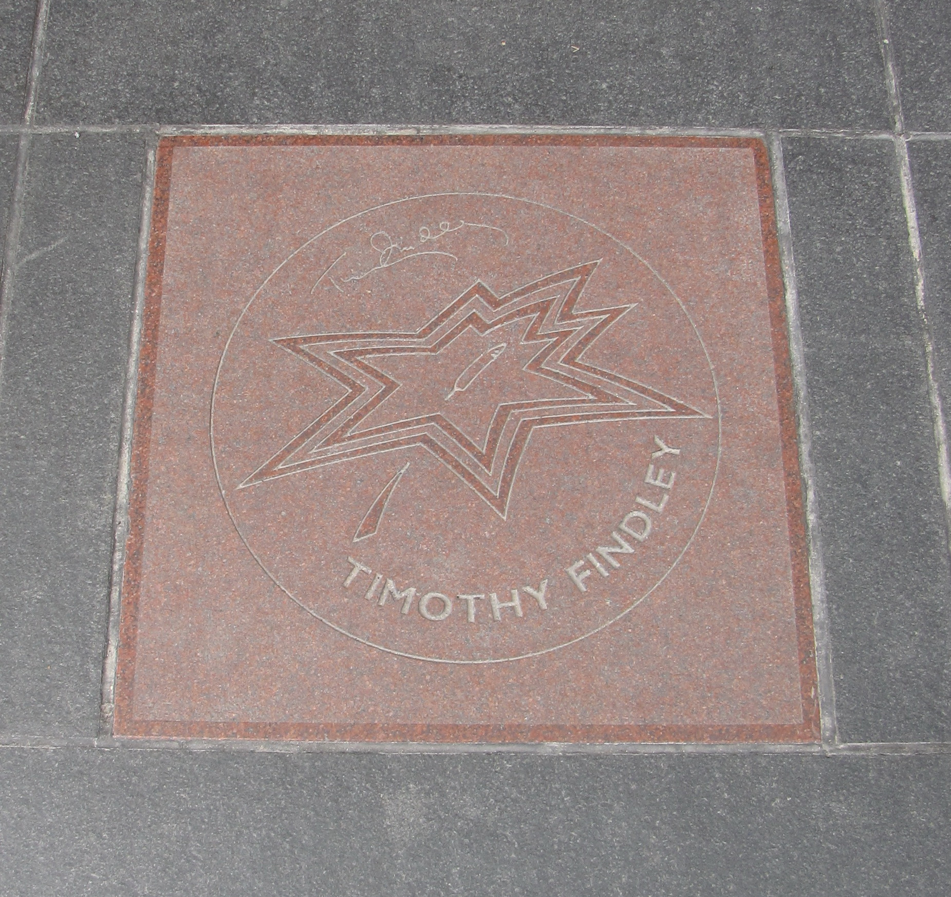 Timothy Findley's star on Canada's Walk of Fame